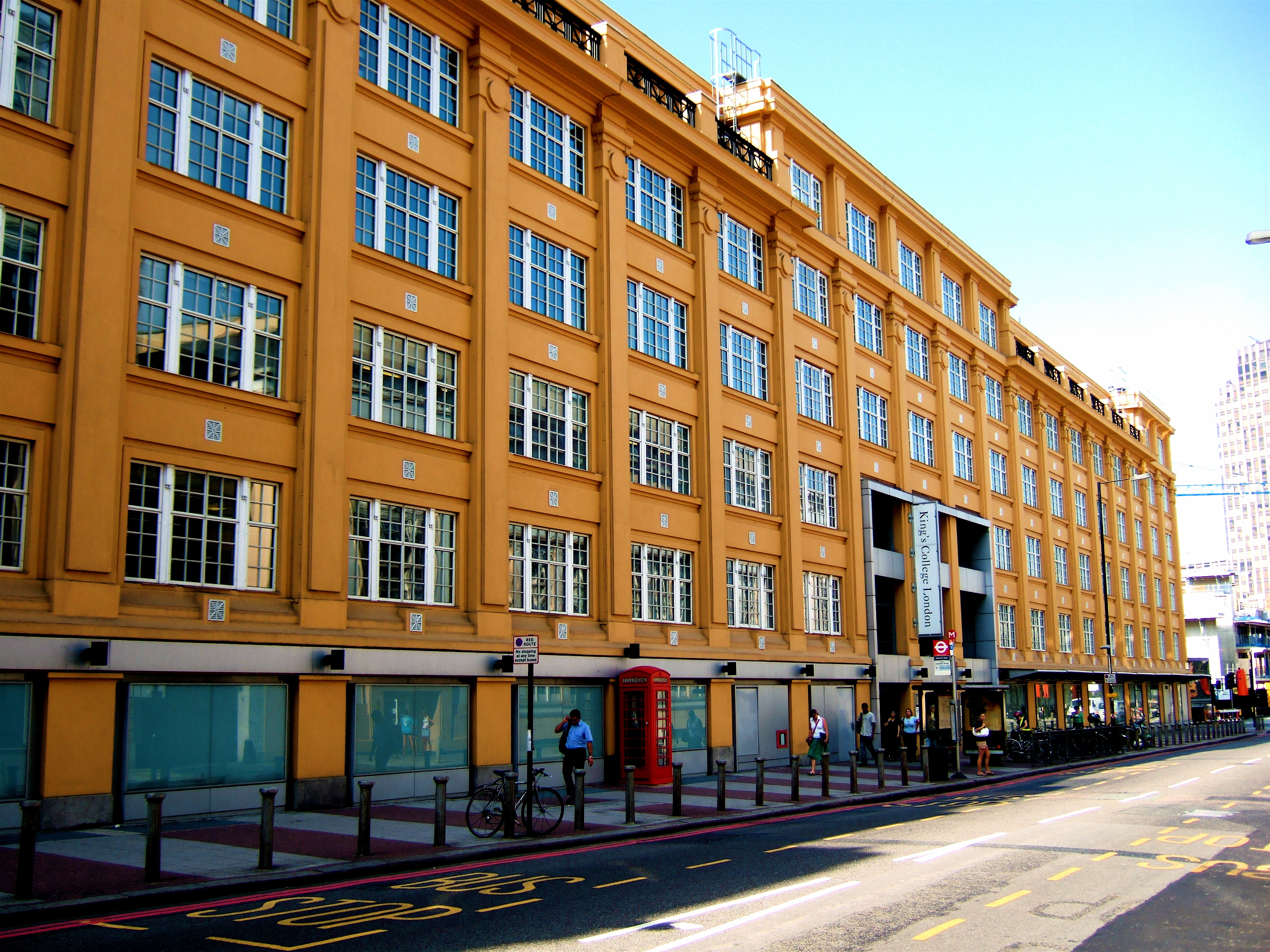 The Franklin-Wilkins Building, Waterloo Campus, King's College London, located in Stamford Street.